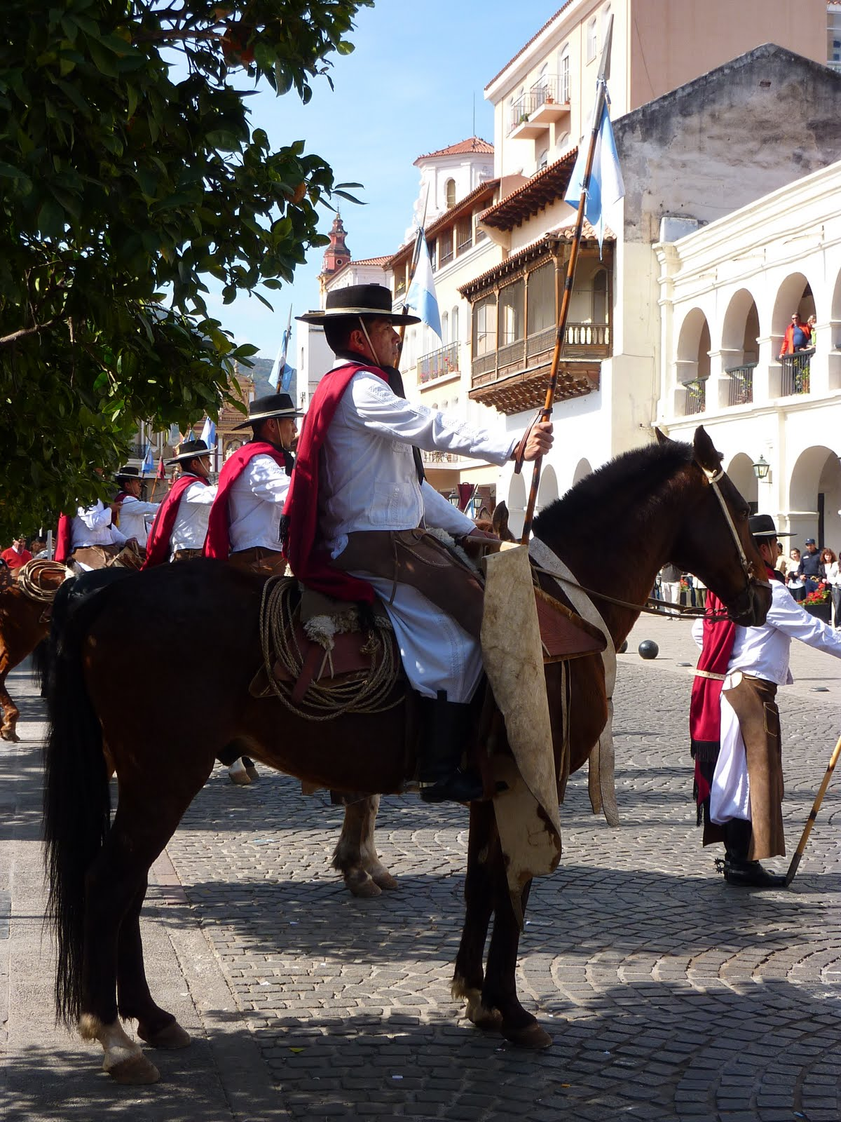 Gauchos in Salta city (Argentina).